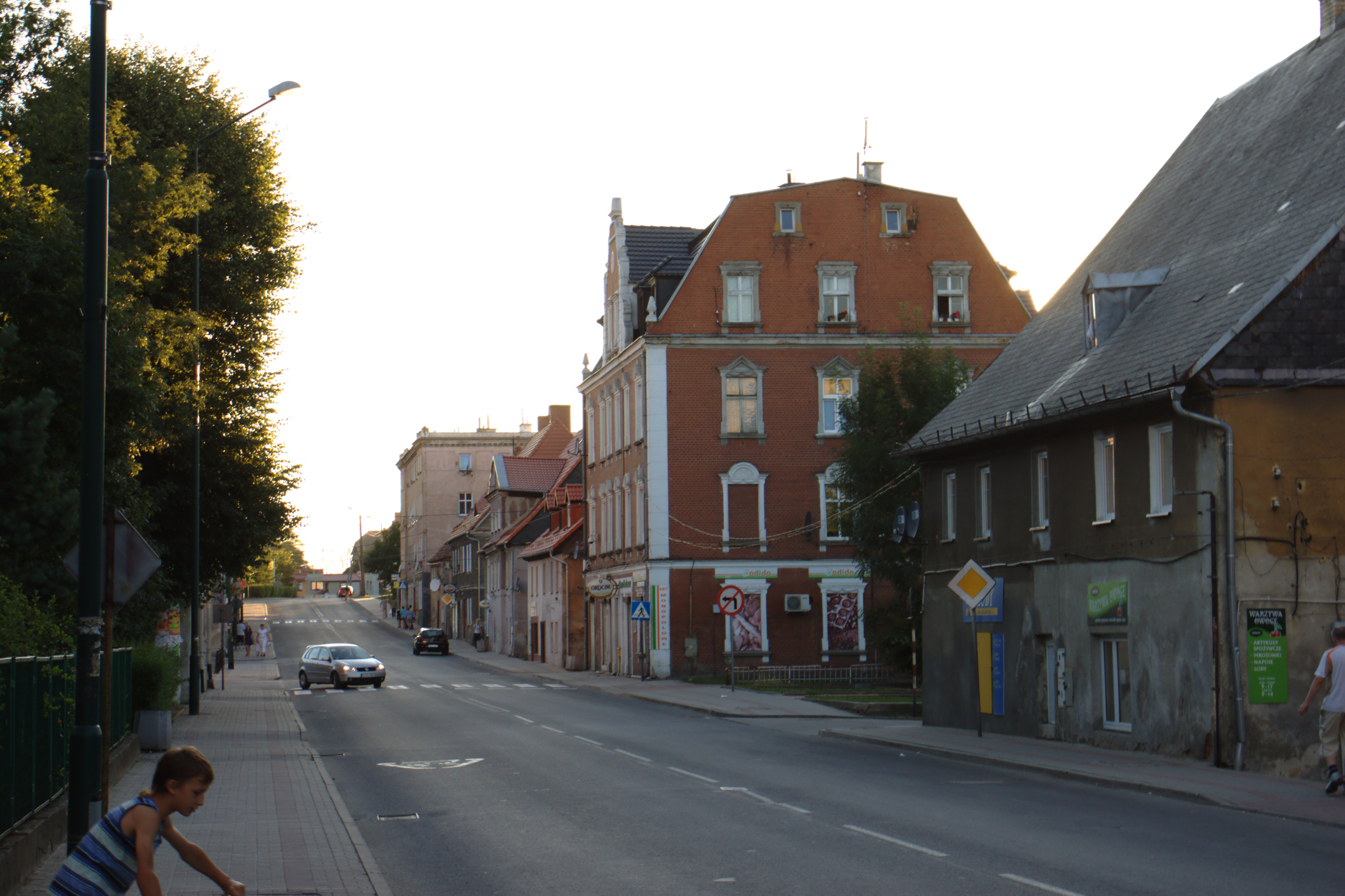 An evening view of the main street in the city of Piława Górna, Lower Silesian Voivodeship, Poland